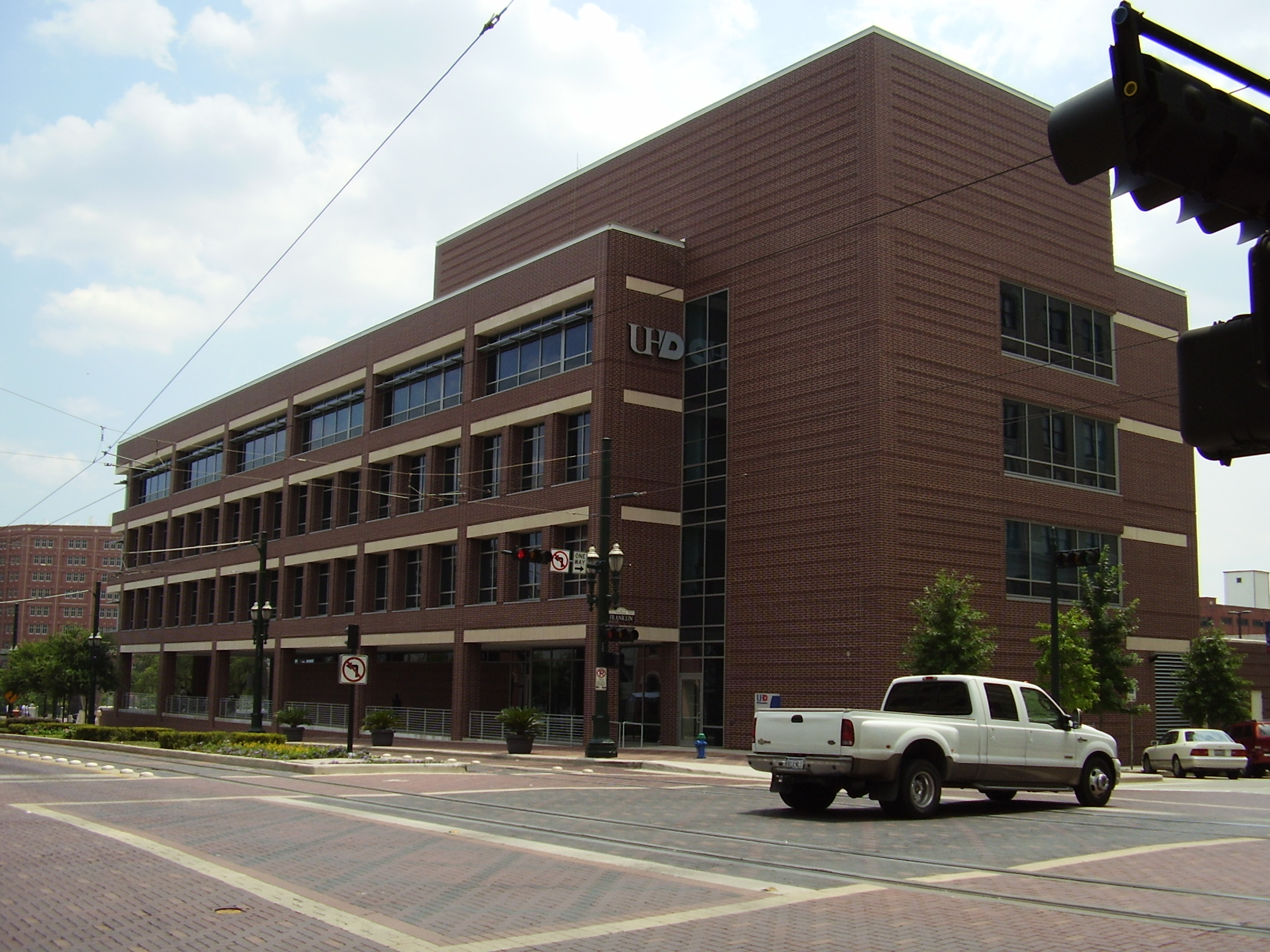 Commerce Street Building